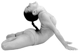 Padma bhujangásana